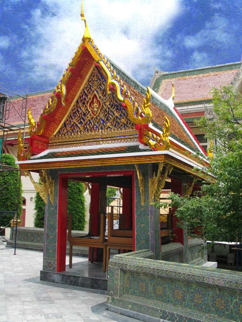 Freshly renovated Sala (pavilion) in Wat Rajbopit, Bangkok. own Photo 2004